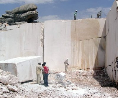 Turkish marble